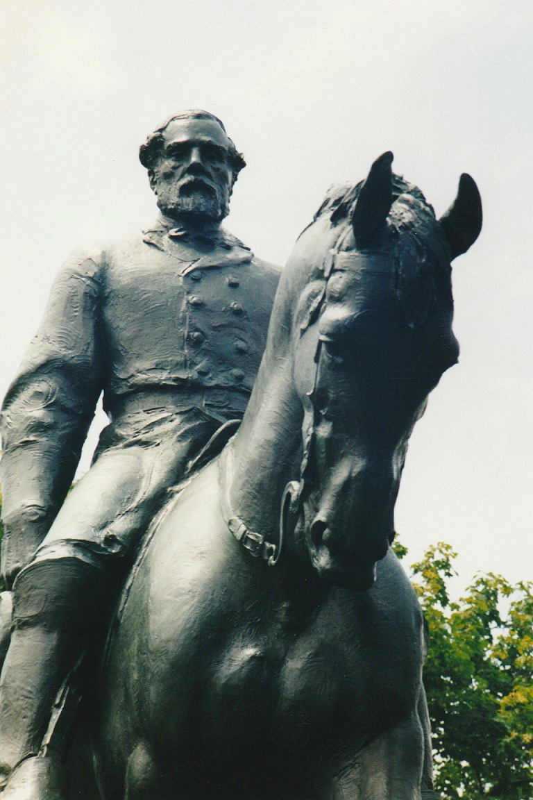 Robert E Lee memorial, Charlottesville VA, USA, Sharady & Lentelli, sculptors, 1924